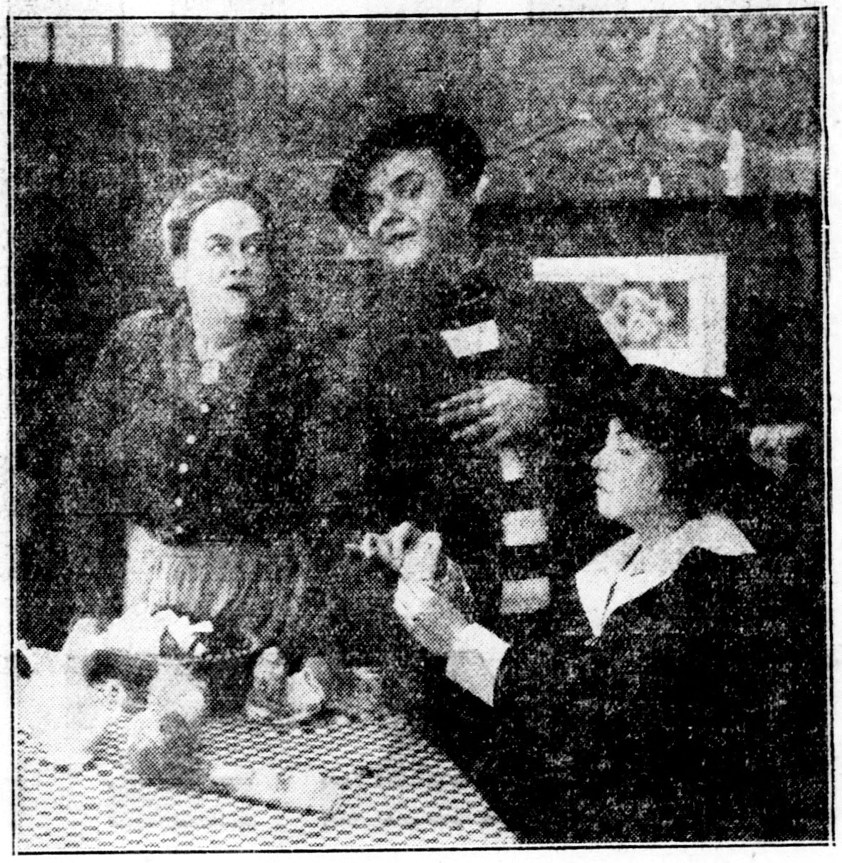 Chimmie Fadden Out West is a 1915 American comedy-Western film directed by Cecil B. DeMille. Scene published in a newspaper.